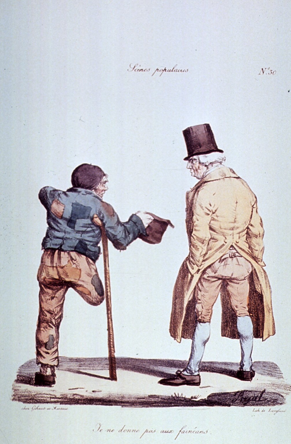 An amputee beggar holds out his hat to a well dressed man who is standing with his hands in his pockets. Artist's caption's translation: "I don't give to idlers."